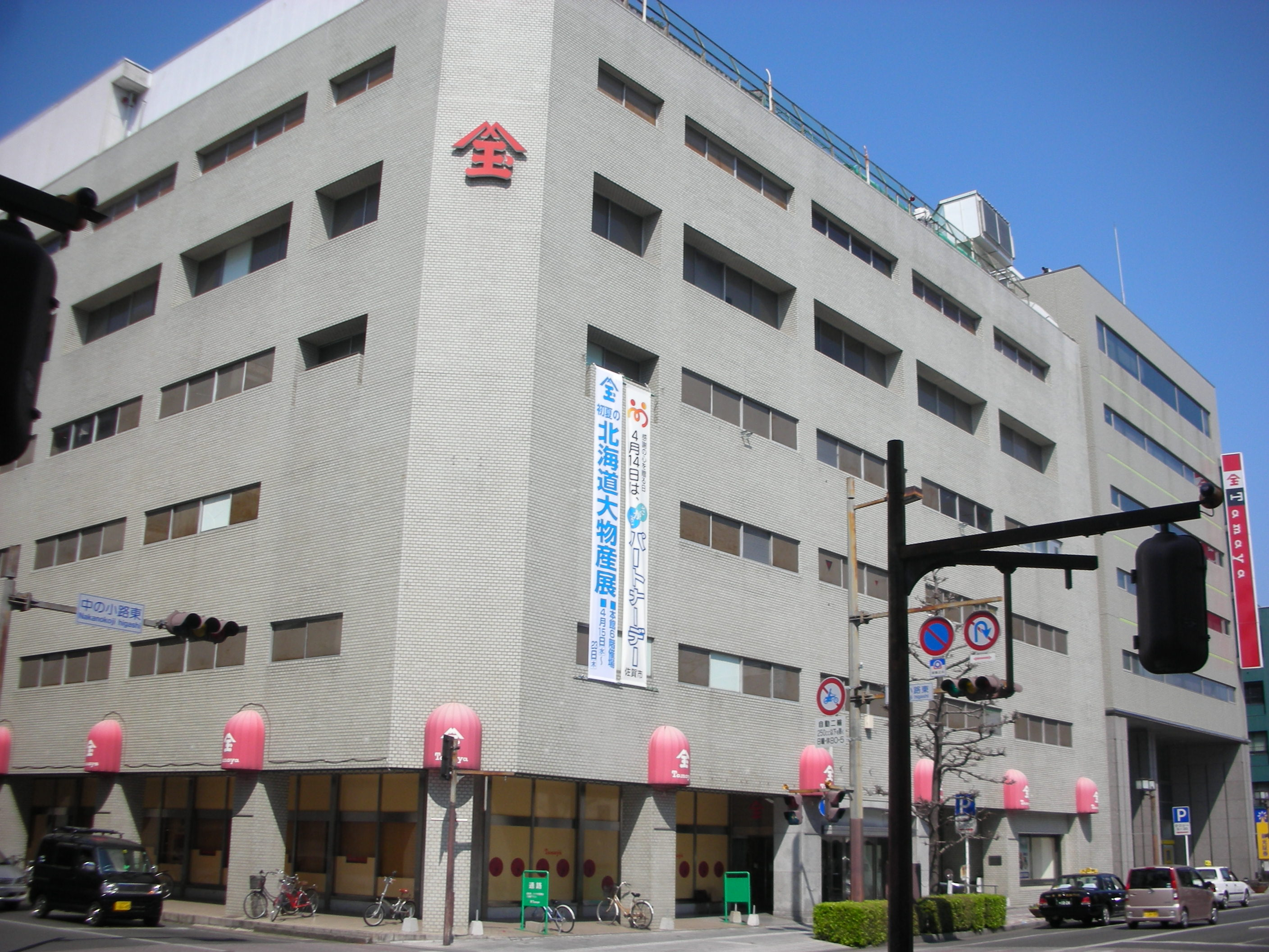 Saga Tamaya is a department store in Saga city, Japan